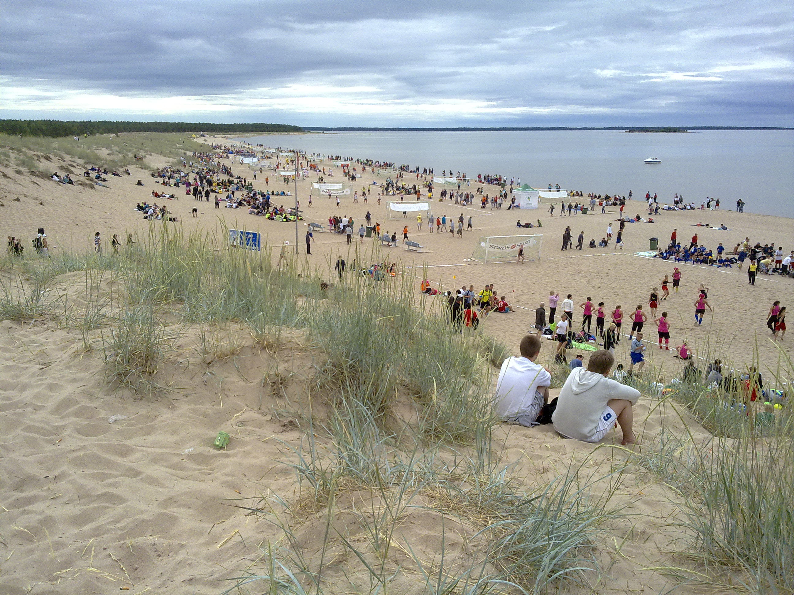 Photo from Yyteri Beachfutis 2009